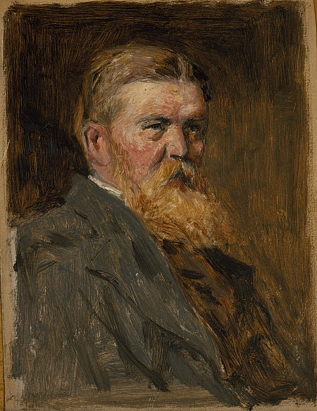 G.W. Wilson